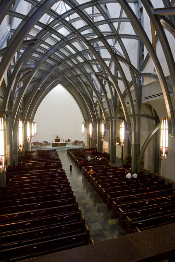 Interior of Ave Maria Oratory in Ave Maria, Florida